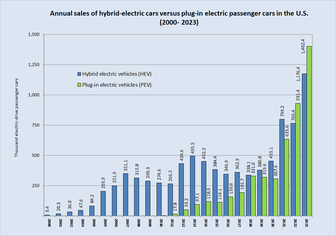 Comparison of annual sales of passenger hybrid electric and plug-in electric vehicles in the United States between 2000 and 2019. Source: Oak Ridge National Laboratory Transportation Energy Data Book: Edition 38.1 (April 2020)